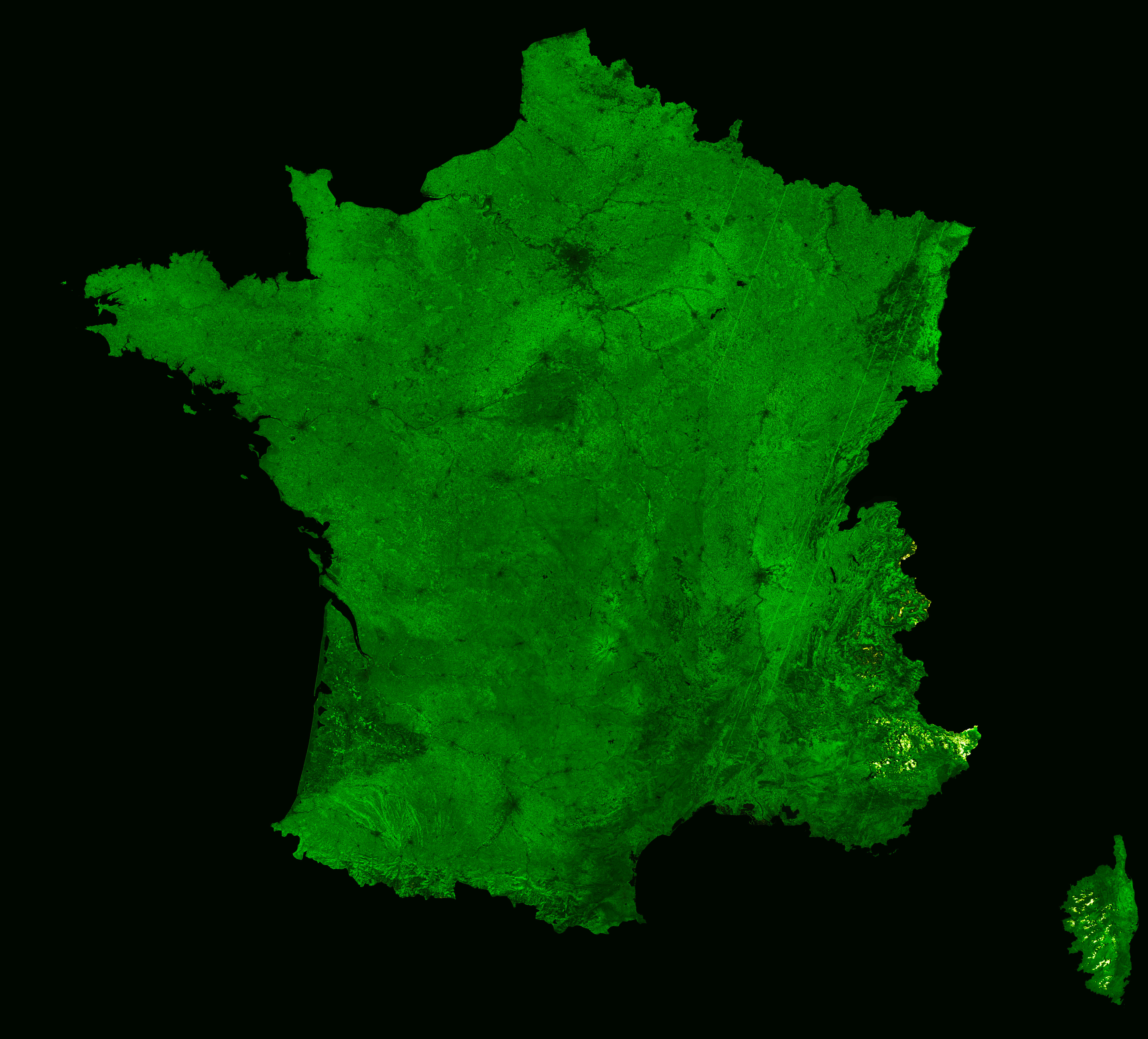 Launched on 7 May 2013, Proba-V is a miniaturised ESA satellite tasked with a full-scale mission: to map land cover and vegetation growth across the entire planet every two days. This cloud-free image of France, acquired by Proba-V on 10 July 2015, has a 300 m per pixel resolution and is composed of cloud, shadow, and snow/ice screened observations over a period of 1 day. France is one of ESA’s 22 member states and hosts ESA Headquarters in Paris. This picture is part of a set of images which were specifically processed and released on occasion of the launch ESA’s Open Access policy for images, video and data. Proba-V imagery at 1km resolution is owned by ESA, Proba-V imagery at 300m resolution is owned by Belspo, the Belgian Science Policy Office.